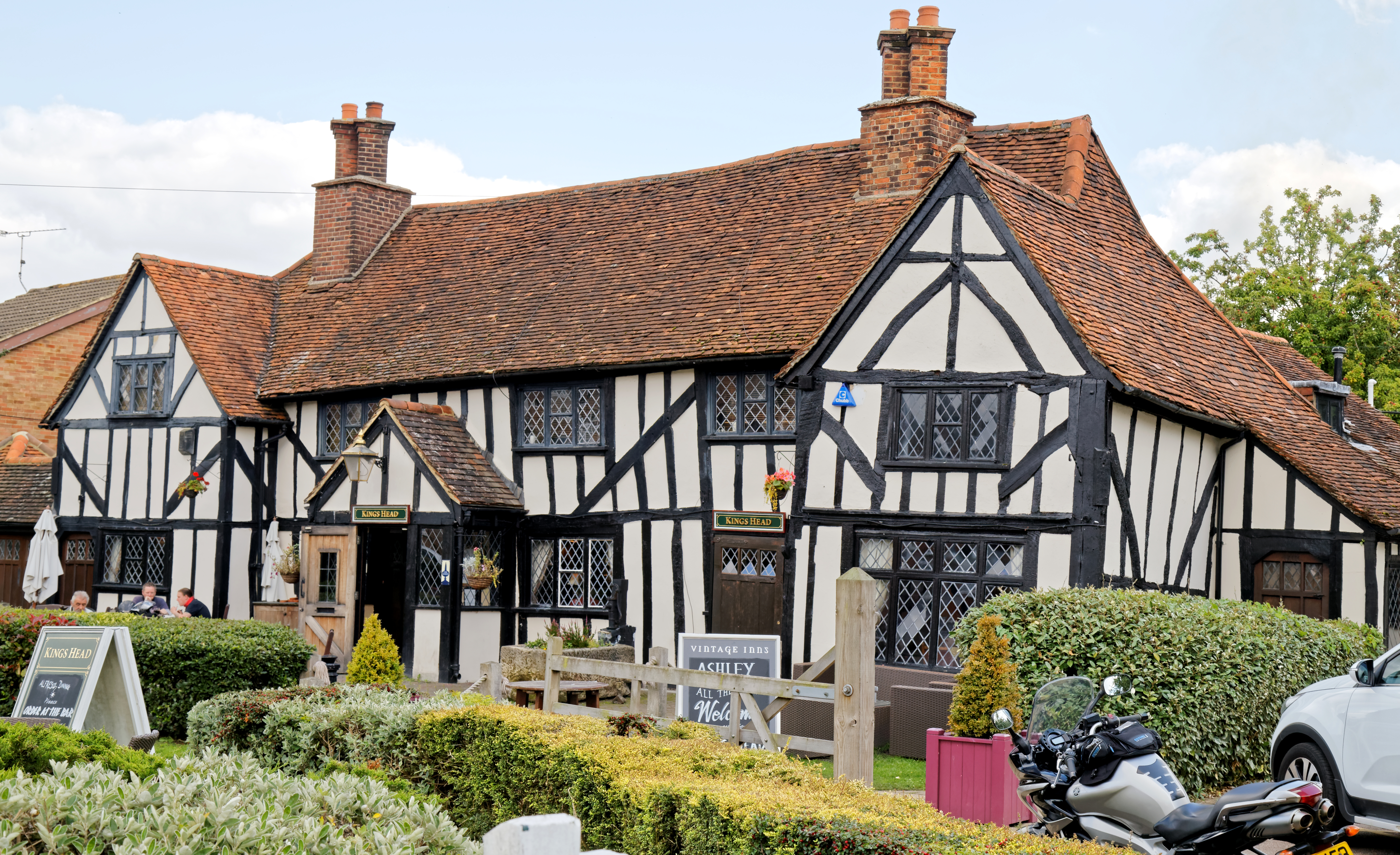 The Kings Head pub, High Road, North Weald, Essex, England, seen from the west.Software: RAW file lens-corrected, optimized and converted to JPEG with DxO OpticsPro 10 Elite, and likely further optimized and/or cropped and/or spun with Adobe Photoshop CS2.